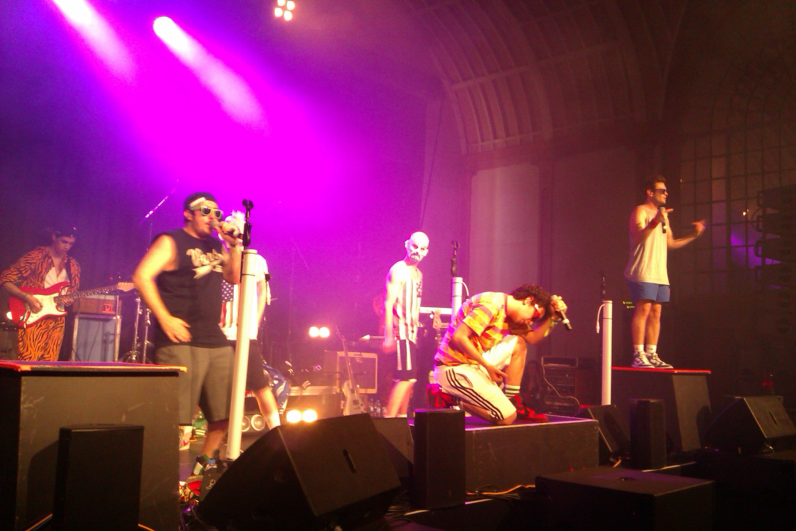 Midnight Beast, Brighton Corn Exchange, Great Escape 2013